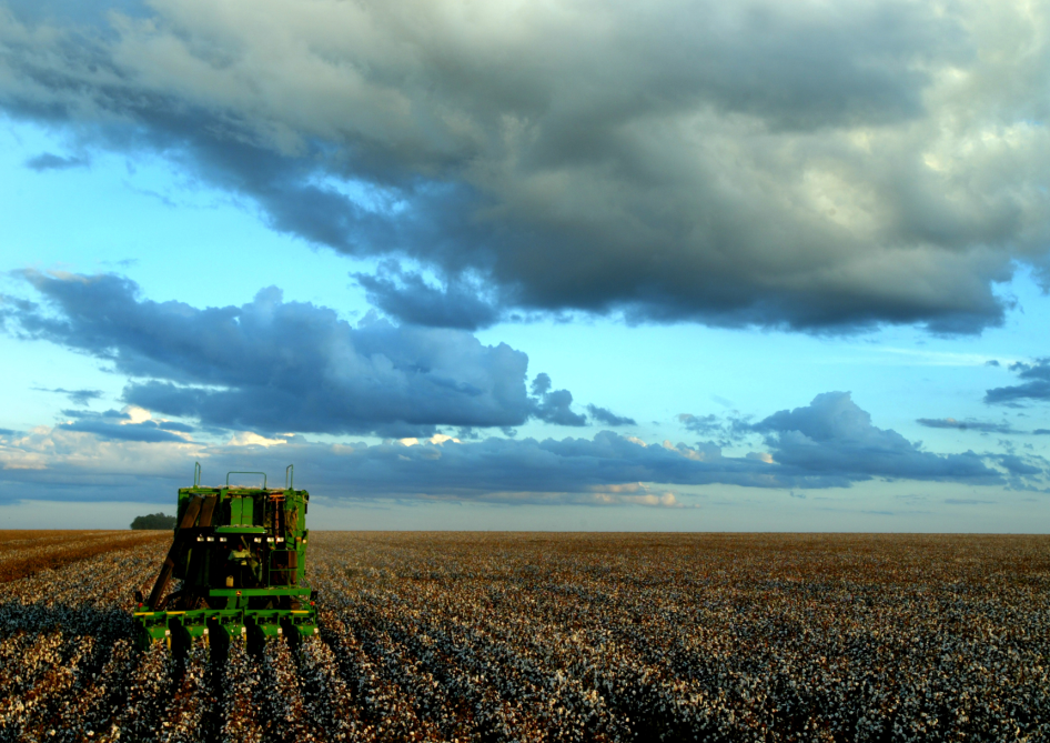 John Deere cotton harvester ("cotton picker") in Brazil.